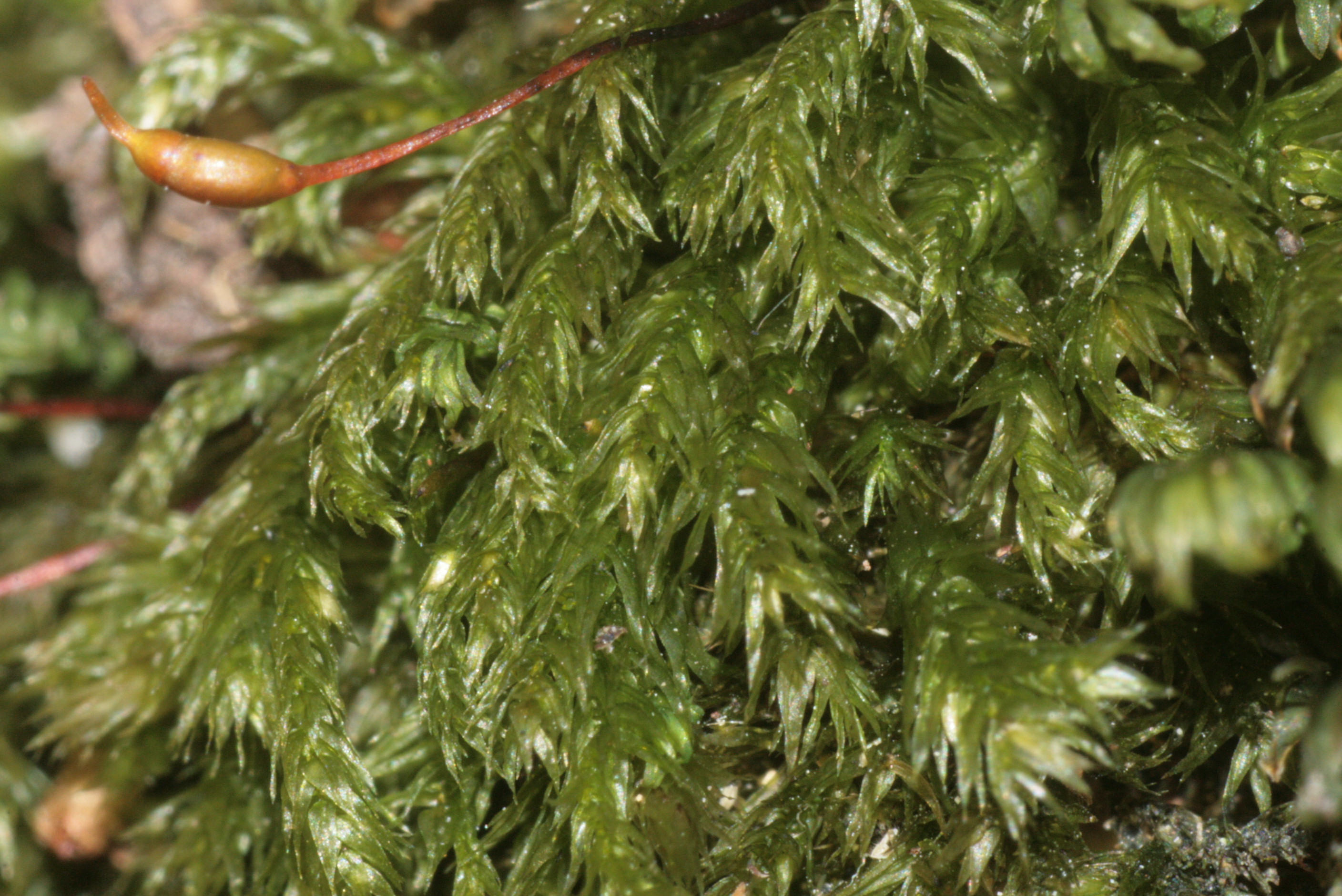 Plasteurhynchium striatulum